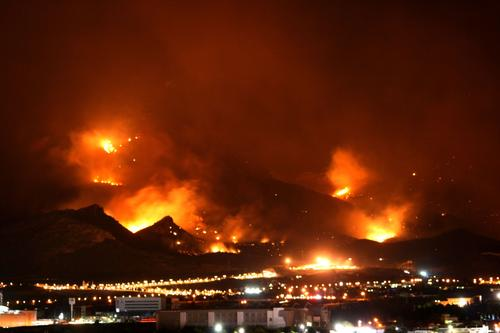 Fire in the Puig Campana. (Spain).